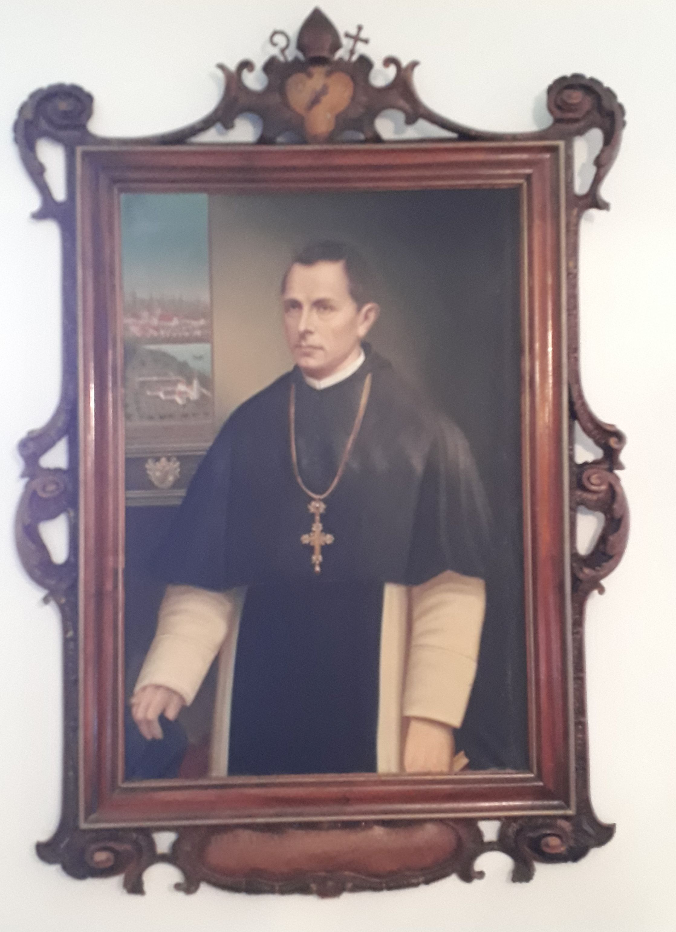 Mehrerau Abbey in Bregenz (Wettingen-Mehrerau Territorial Abbey), Vorarlberg, Austria. Painting.